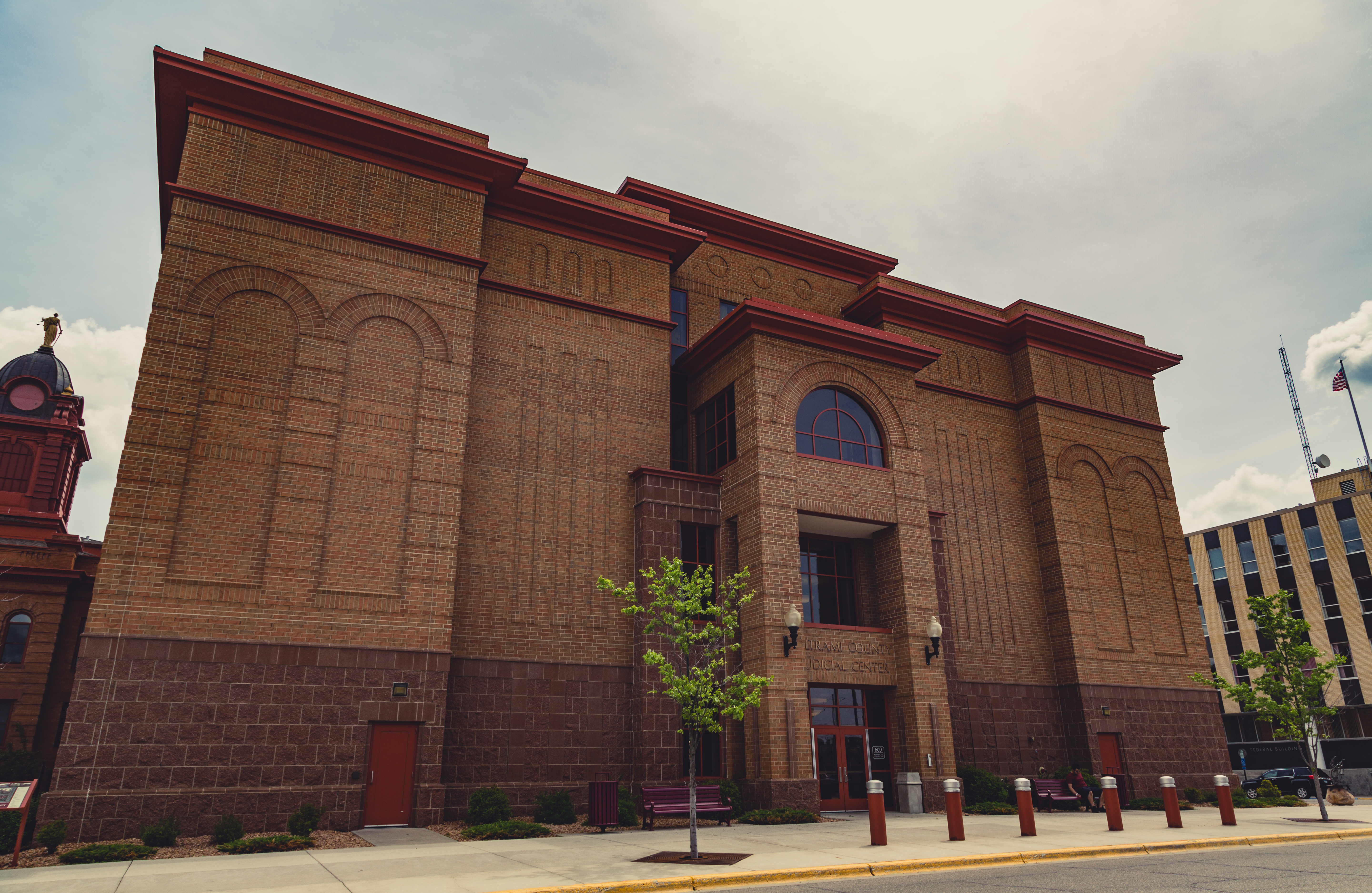 Beltrami County District Court - 600 Minnesota Ave NW, Bemidji, Minnesota